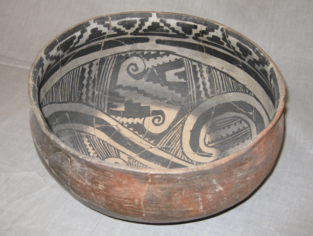 Cliff Polychrome bowl from the collections of the Maxwell Museum, University of New Mexico.